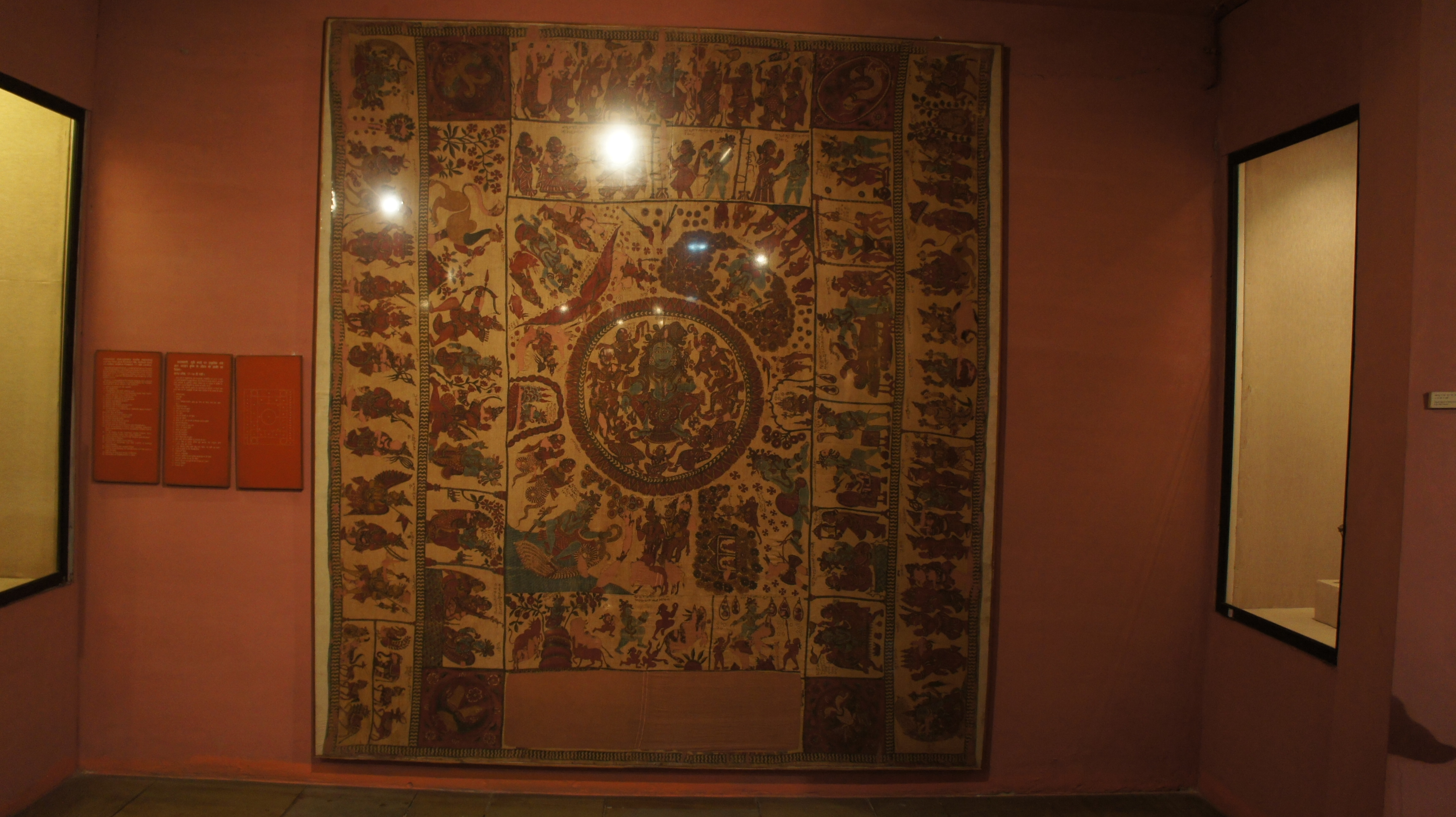 Dye-painted textile depicting scenes from Lord Krishna's life. Kalamkari from Andhra Pradesh. 17th - 18th Century. Exhibited at Crafts Museum, New Delhi.